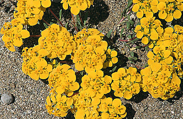 A sprawling herb of Chile's 'Norte Chico' In context at